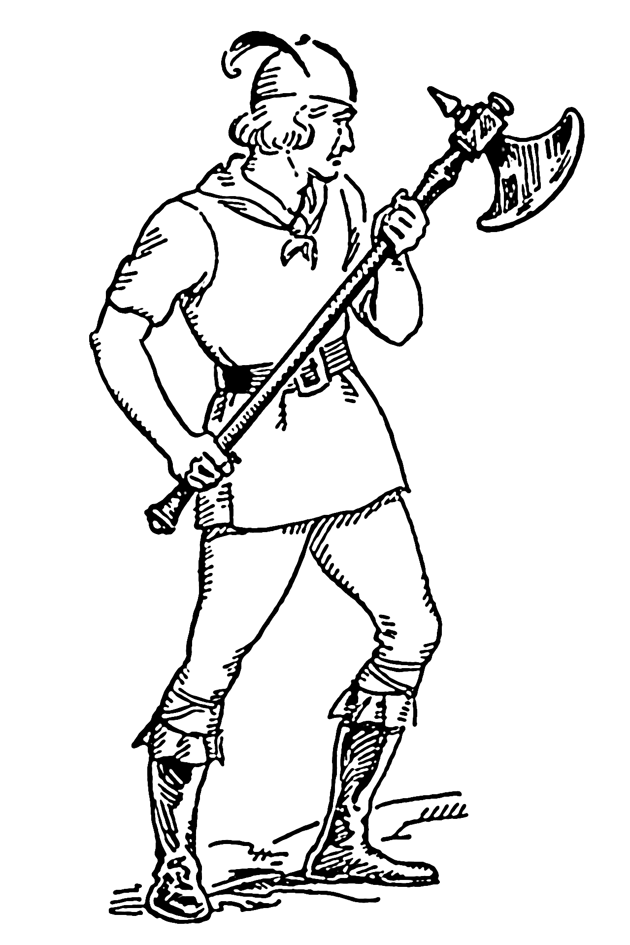 Line art drawing of a man holding a battle-axe.